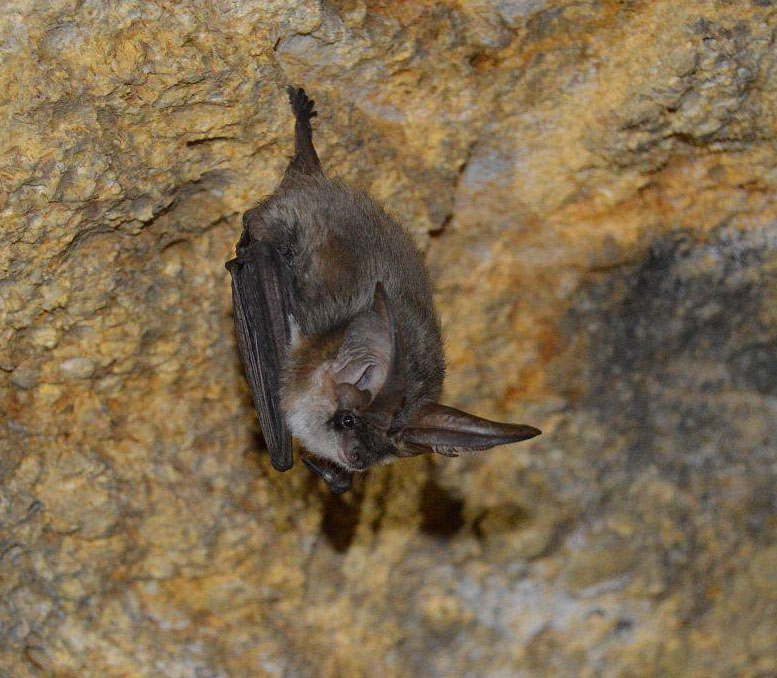 Grey long-eared bat in Odesa catacombs